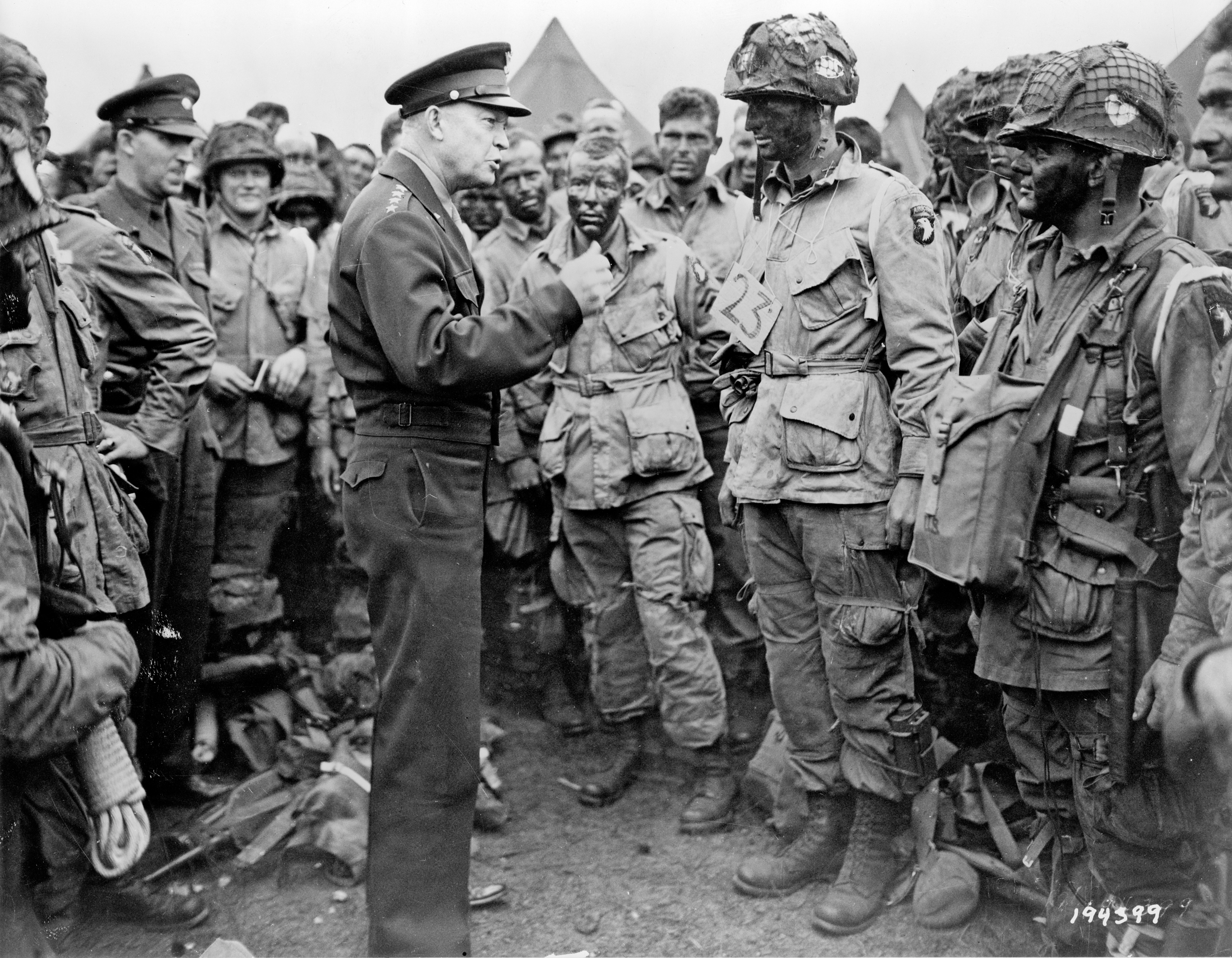 General Dwight D. Eisenhower addresses American paratroopers prior to D-Day. "Gen. Dwight D. Eisenhower gives the order of the Day. 'Full victory-nothing less' to paratroopers in England, just before they board their airplanes to participate in the first assault in the invasion of the continent of Europe." Eisenhower is meeting with US Co. E, 502nd Parachute Infantry Regiment (Strike) of the 101st Airborne Division, photo taken at Greenham Common Airfield in England about 8:30 p.m. on June 5, 1944. The General was talking about fly fishing with his men as he always did before a stressful operation (Eisenhower speaks with Hartsock). Memoir by Lt Wallace C. Strobel about this photo (seen wearing the number 23 around his neck)